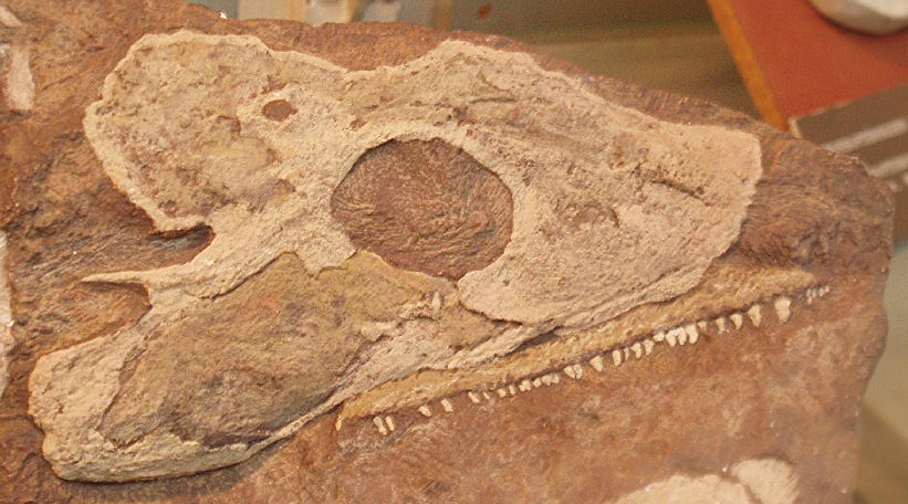 Skull of Acanthostega gunnari, an early tetrapod